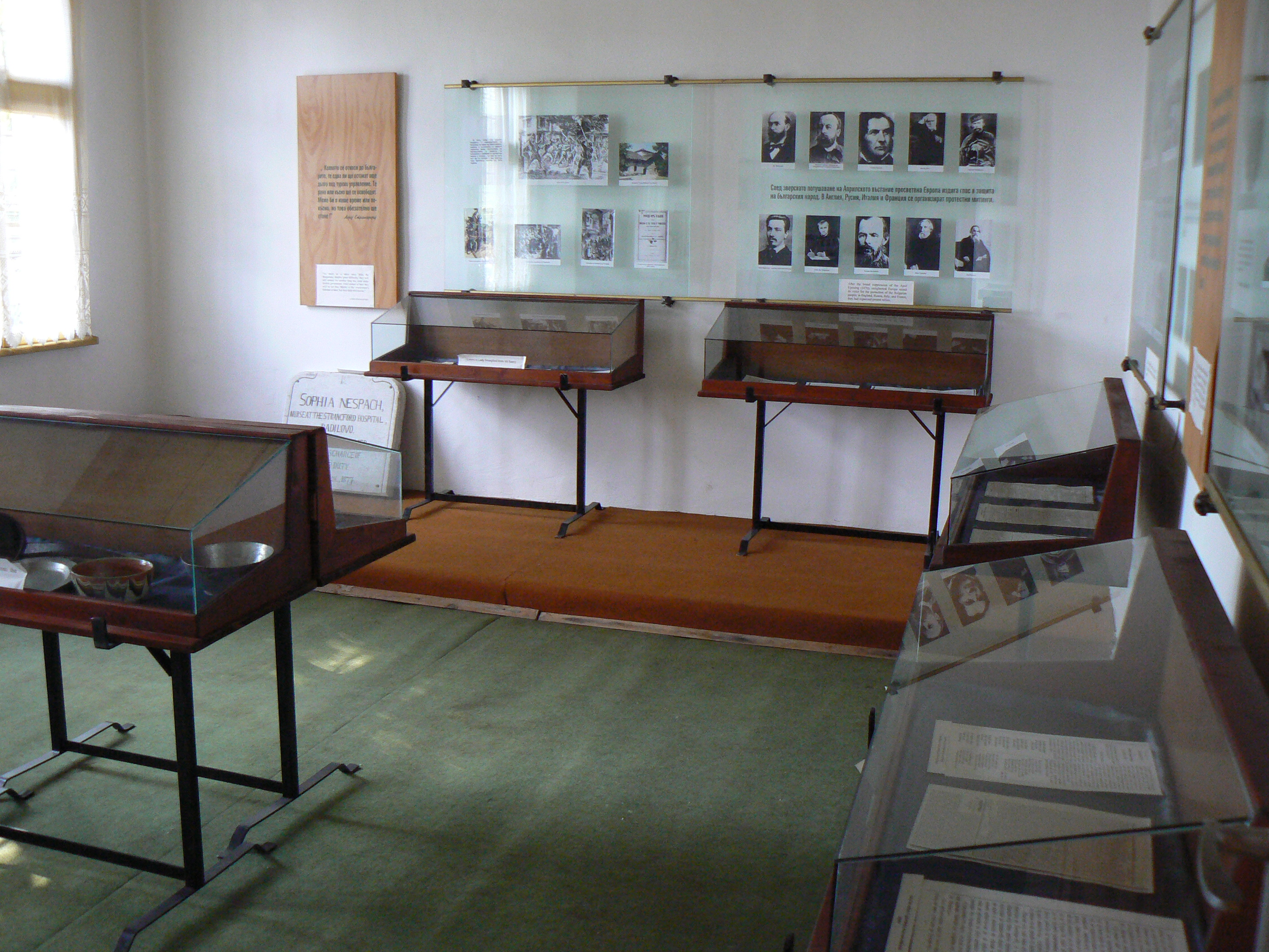 Radilovo museum - Lady Strangford exposition. Lady Strangford, Emily Ann Smythe or Emily Anne Beaufort (1826 – 24 March, 1887) was a British illustrator, writer and nurse. There are streets named after her and permanent museum exhibits about her in Bulgaria.